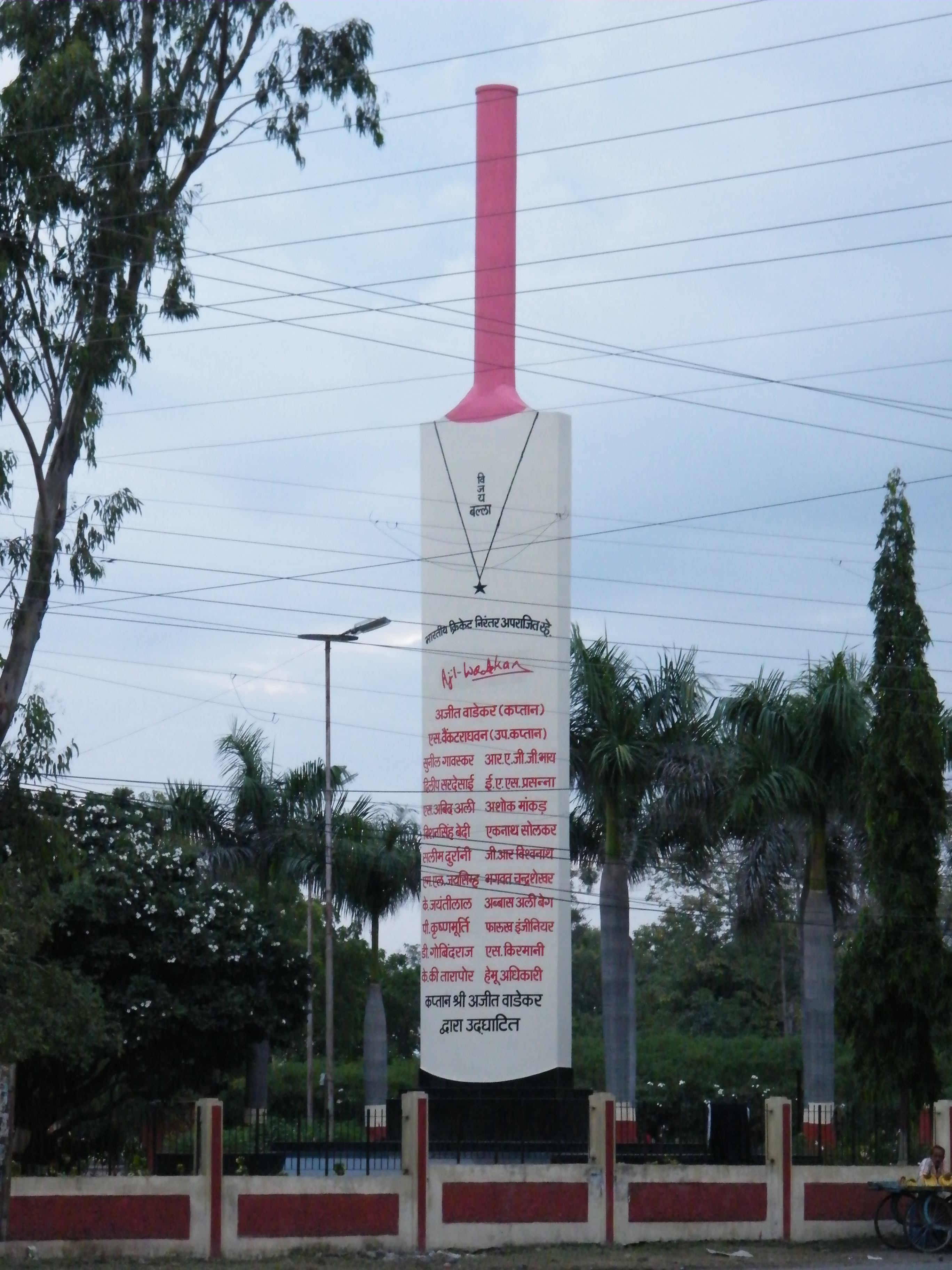 "Vijay Balla" made out of concrete with names of the players of the Indian team who won the test series against England(1971)and Gary Sobers' West Indies(1972).The bat was first constructed in Indore Zoo but due to construction of BRTS the bat was shifted to Nehru Sports Complex near GPO inaugurated by former Indian captain Ajit Wadekar...